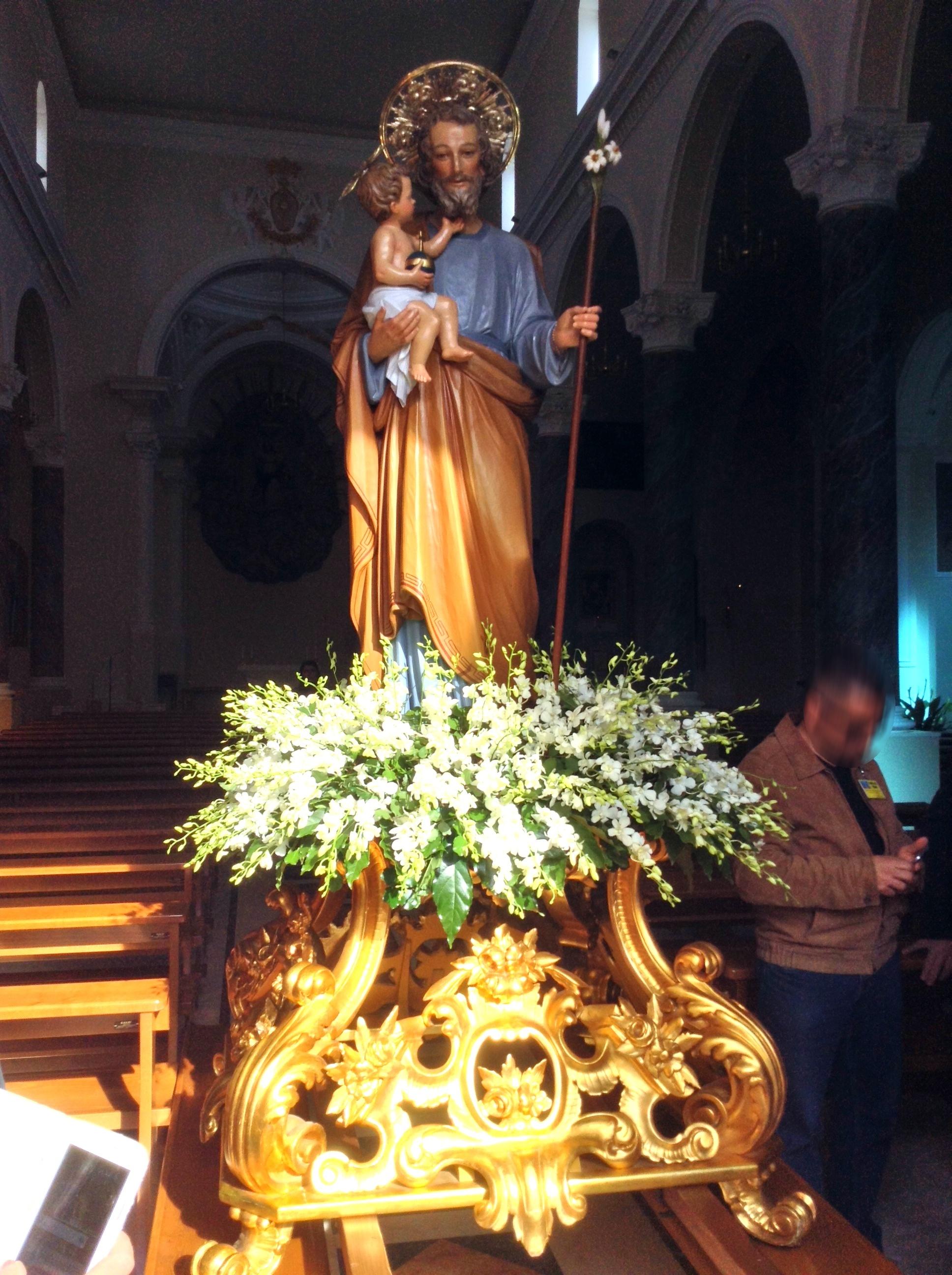 Statue of Saint Joseph in the Chiesa San Carlo Borromeo in San Marzano di San Giuseppe